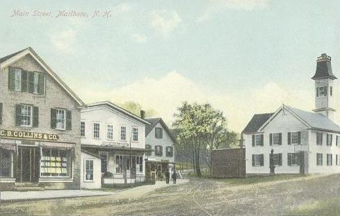 View of Main Street, Marlborough, New Hampshire